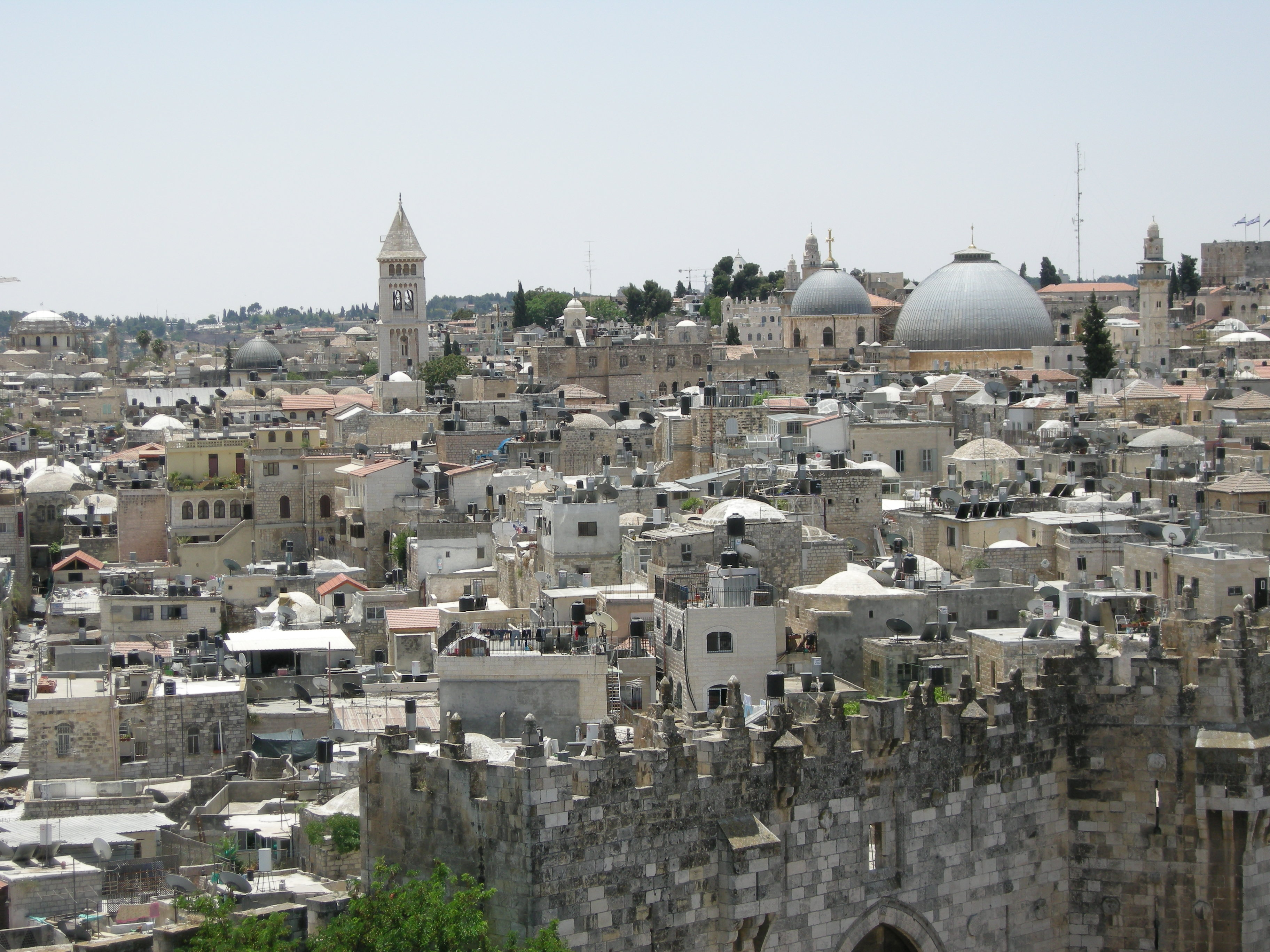 Siur_wikipedia_in__Jerusalem